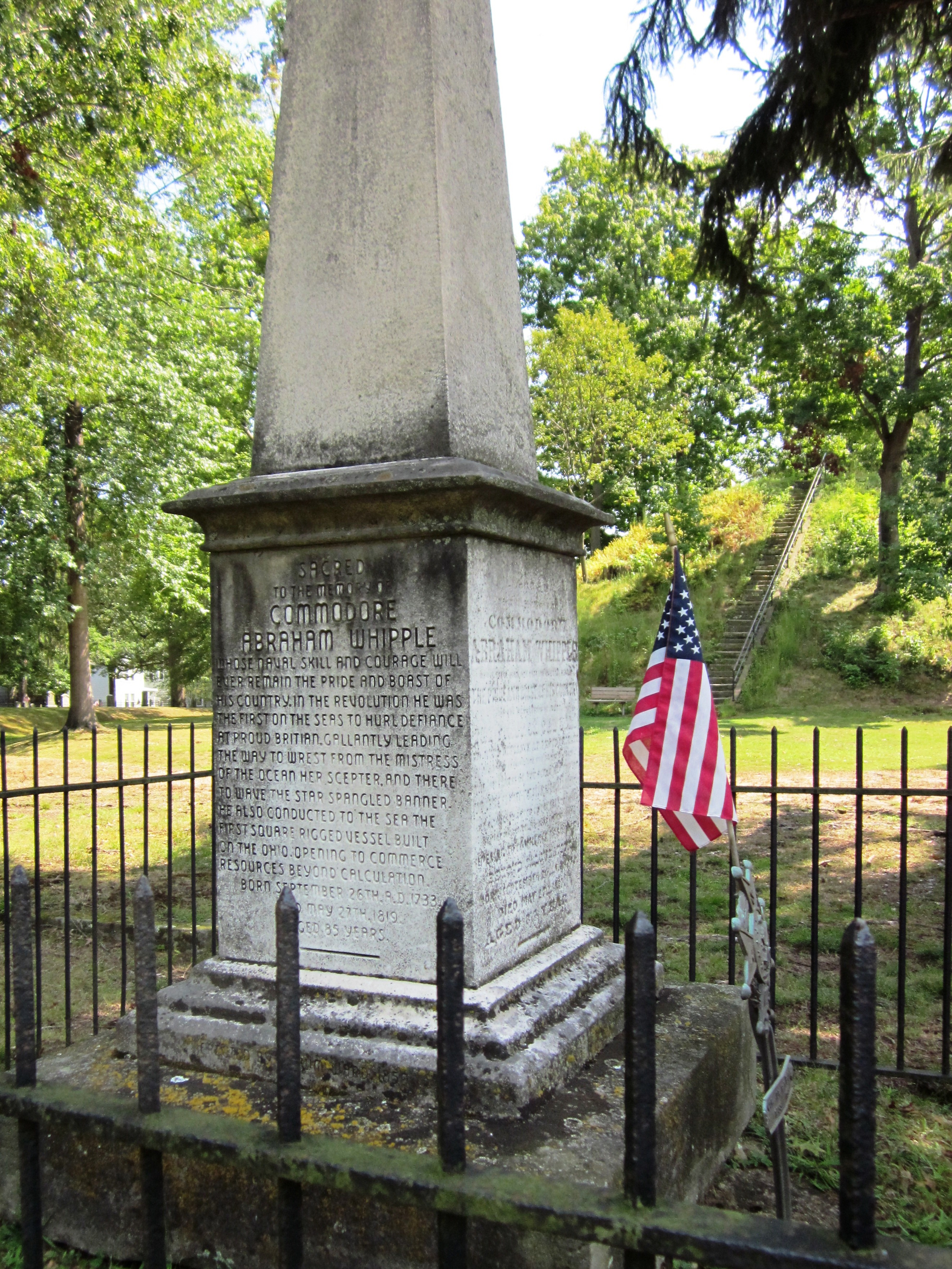 The Abraham Whipple marker, Mound Cemetery (Marietta, Ohio), September 2012. In the background is a prehistoric American Indian burial mound, known as the Great Mound or Conus. I took this photo, and I release to the public domain. ColWilliam (talk) 16:16, 13 September 2012 (UTC)